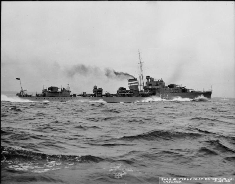 Photograph of British destroyer HMS Janus, underway on contractor's sea trials.